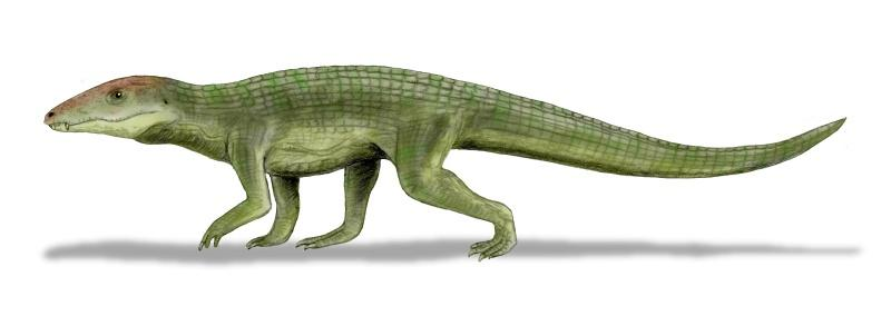 Uruguaysuchus aznaresi, a crocodylomorph from the Late Cretaceous of Uruguay, after Rusconi, 1933, pencil drawing, digital coloring